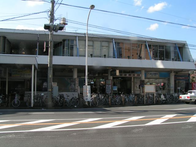 Shin-Shimizu Station on the Shizuoka Railway Shizuoka-Shimizu Line